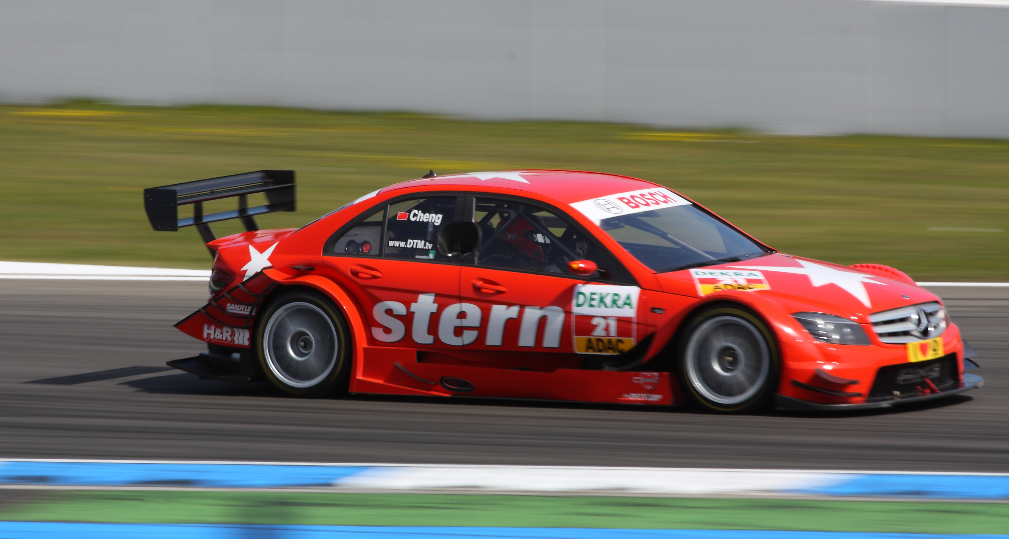 DTM car Mercedes-Benz Season 2010 (C-Class, W204), Congfu Cheng 程丛夫 (driver)